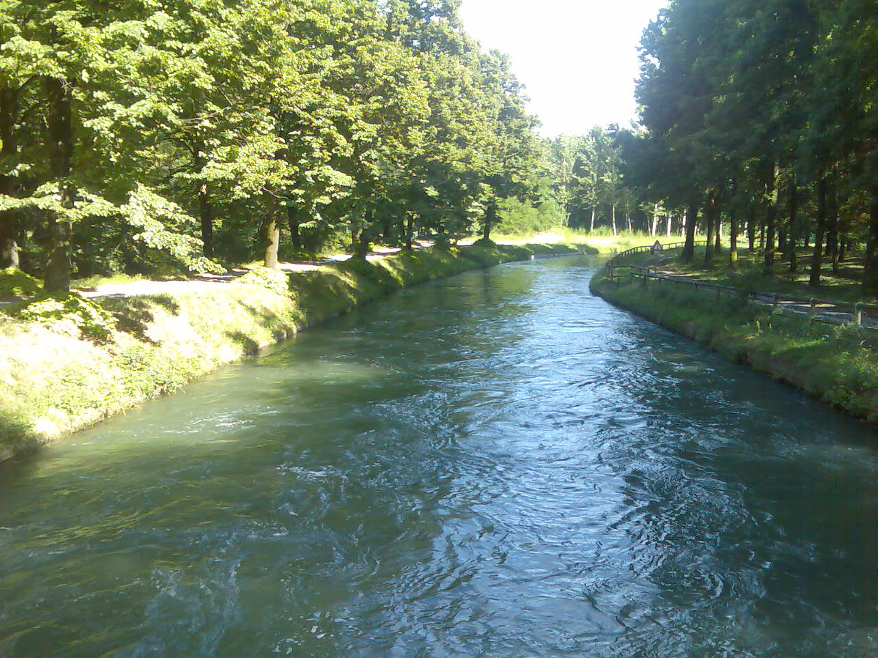 The Naviglio Pallavicino, a canal in central Lombardy, not far from Tombe Morte, an important hydrographical node in the Province of Cremona.